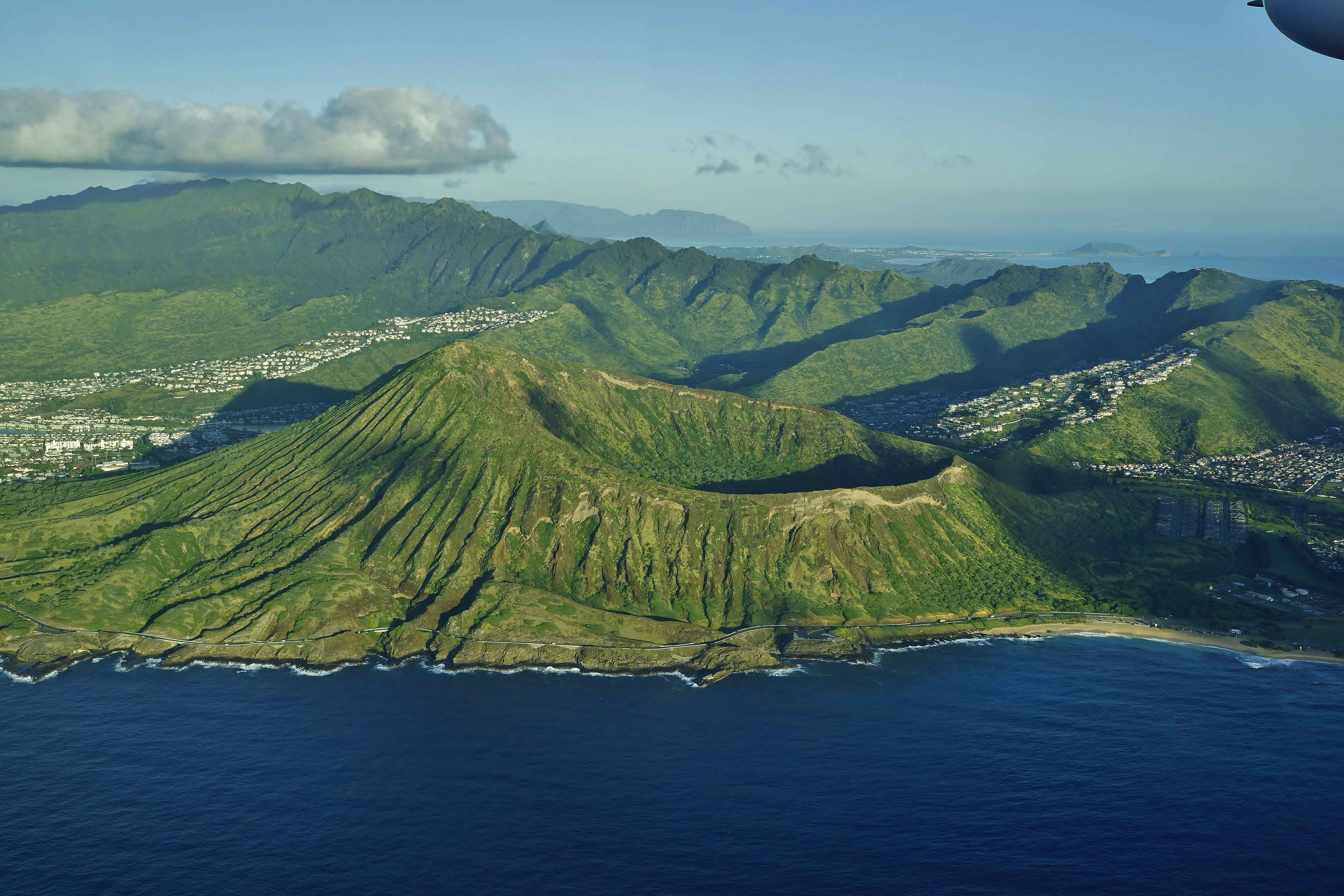 Koko Crater, with its peak, Kohelepelepe (or Puʻu Mai), rising to 1208 ft or 368 m